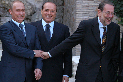 VILLA MADAMA, ROME. President Putin during a photo call of participants in the Russia-European Union summit with Italian Prime Minister Silvio Berlusconi, centre, and Javier Solana, EU High Representative for Common Foreign and Security Policy.